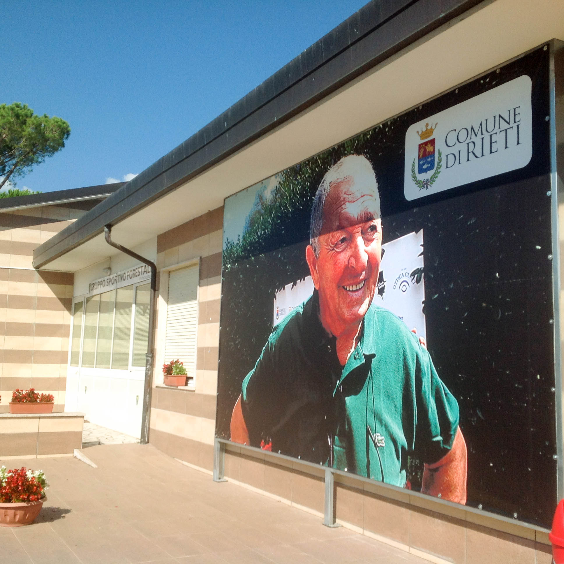 Portrait of Andrea Milardi outside the headquarters of "Atletica studentesca CARIRI" athletics club (which he founded in 1975), inside the Raul Guidobaldi stadium - Rieti, Italy